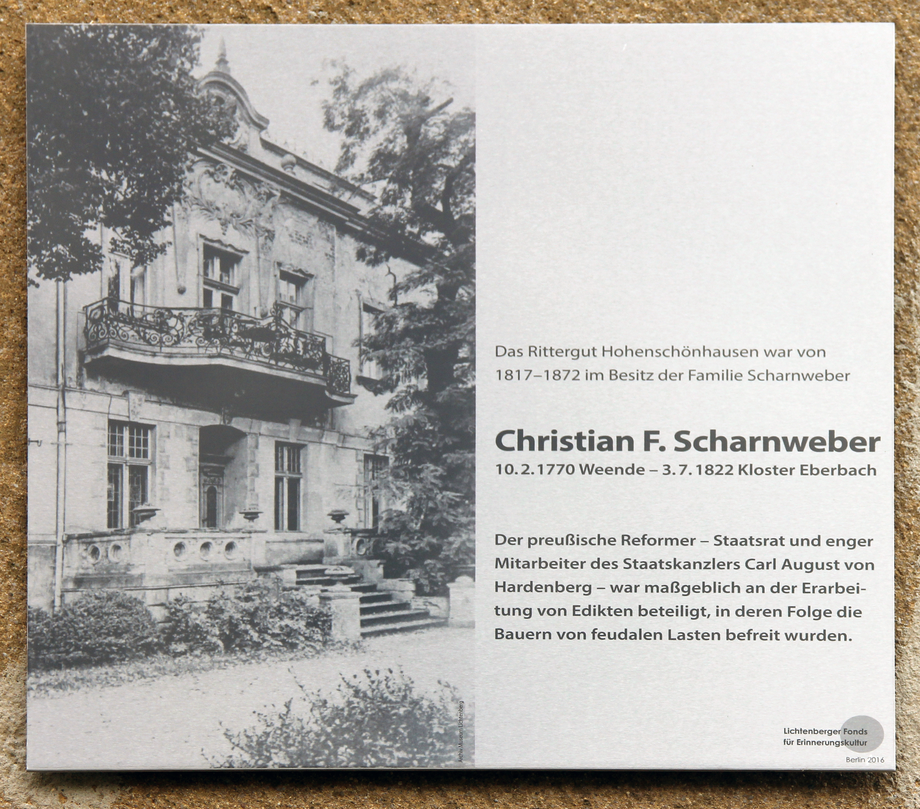 Memorial plaque, Christian Friedrich Scharnweber, Hauptstraße 44, Berlin-Alt-Hohenschönhausen, Deutschland